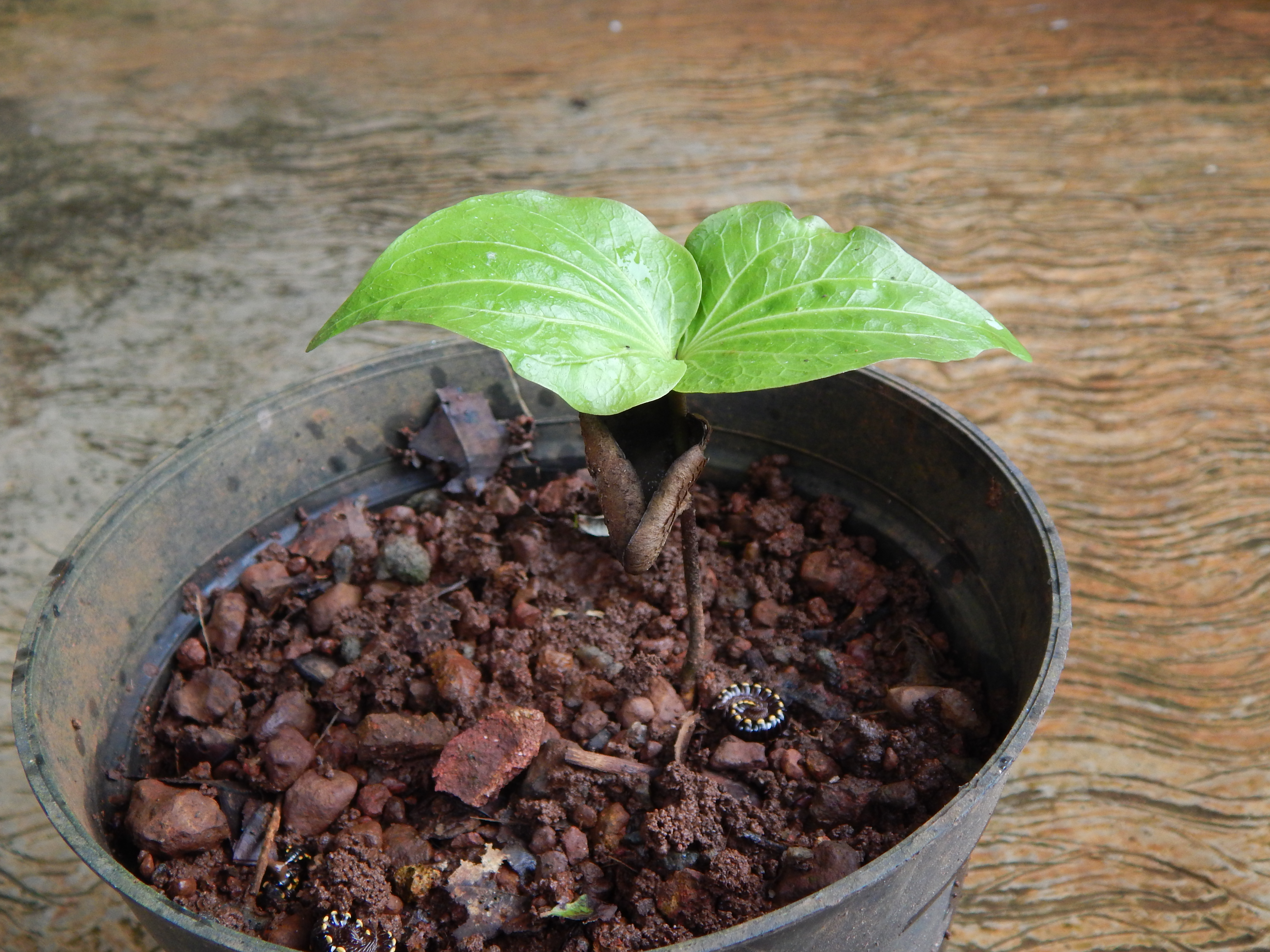 It is a tree native to India. It is poisonous and tastes bitter. Produces button like seeds.